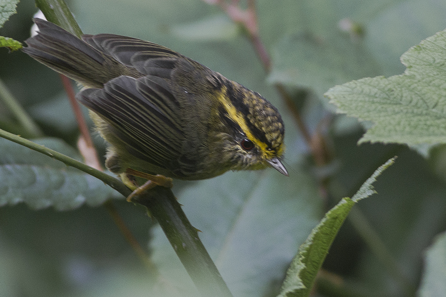 The species Yellow-throated Fulvetta had been photographed at Khangchendzonga National Park during GoingWild's birding trip in West Sikkim in India on 29.10.2015.